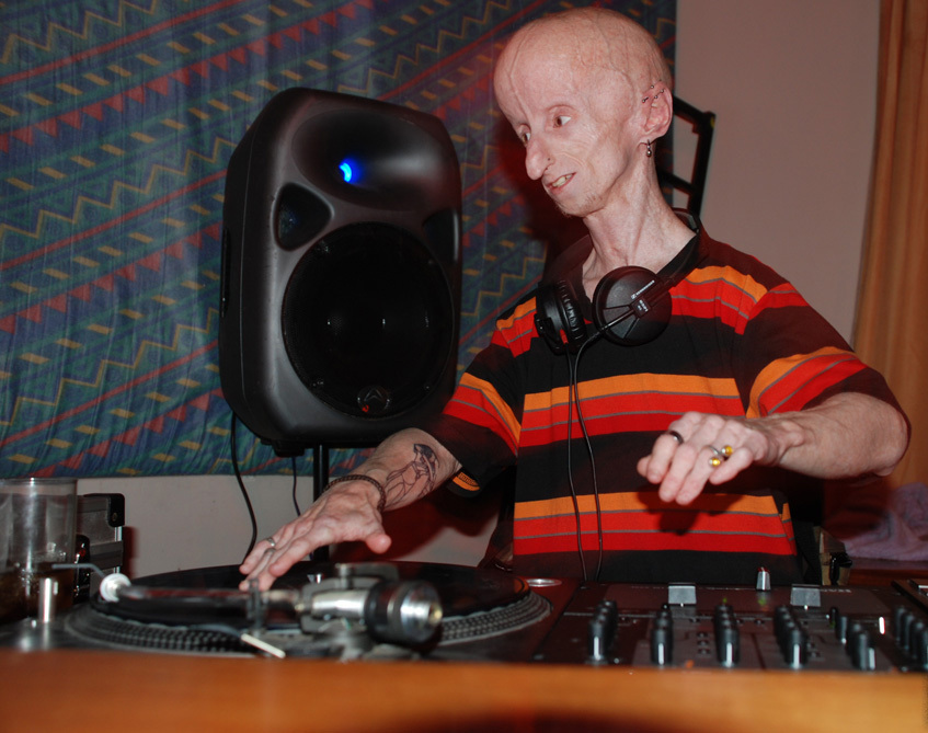 This picture show Leon Botha